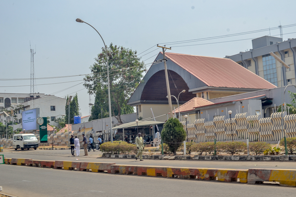 INEC Headquarter, Abuja